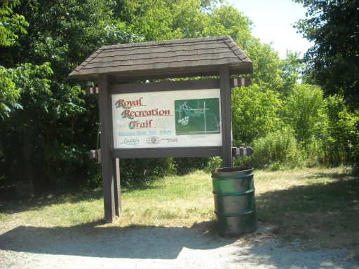 A photo of the trail information sign at the start of the Eramosa River Trail.